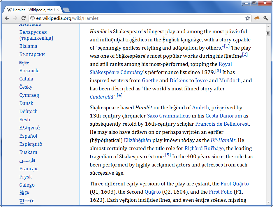 PIE running in Lite mode showing the Wikipedia article "Hamlet".